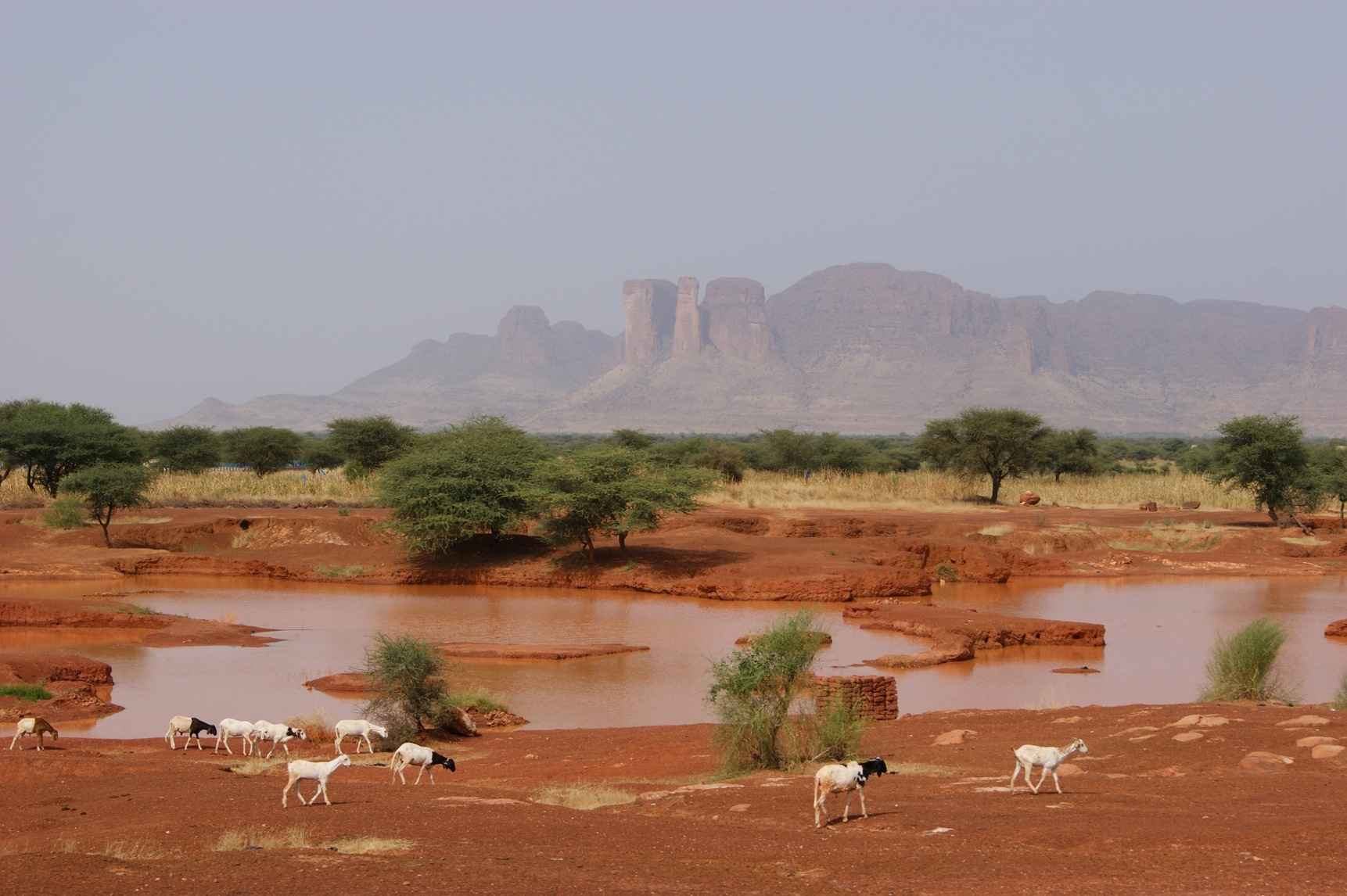 The road to Timbuktu, in Mali. Acacia trees in the Sahel sub-Saharan savanna ecoregion. Sahel Acacia species include: Acacia laeta, Acacia nilotica, Acacia seyal, and Acacia tortilis.